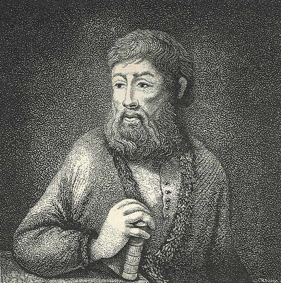 Nikita Zotov, Gravure by Osipov